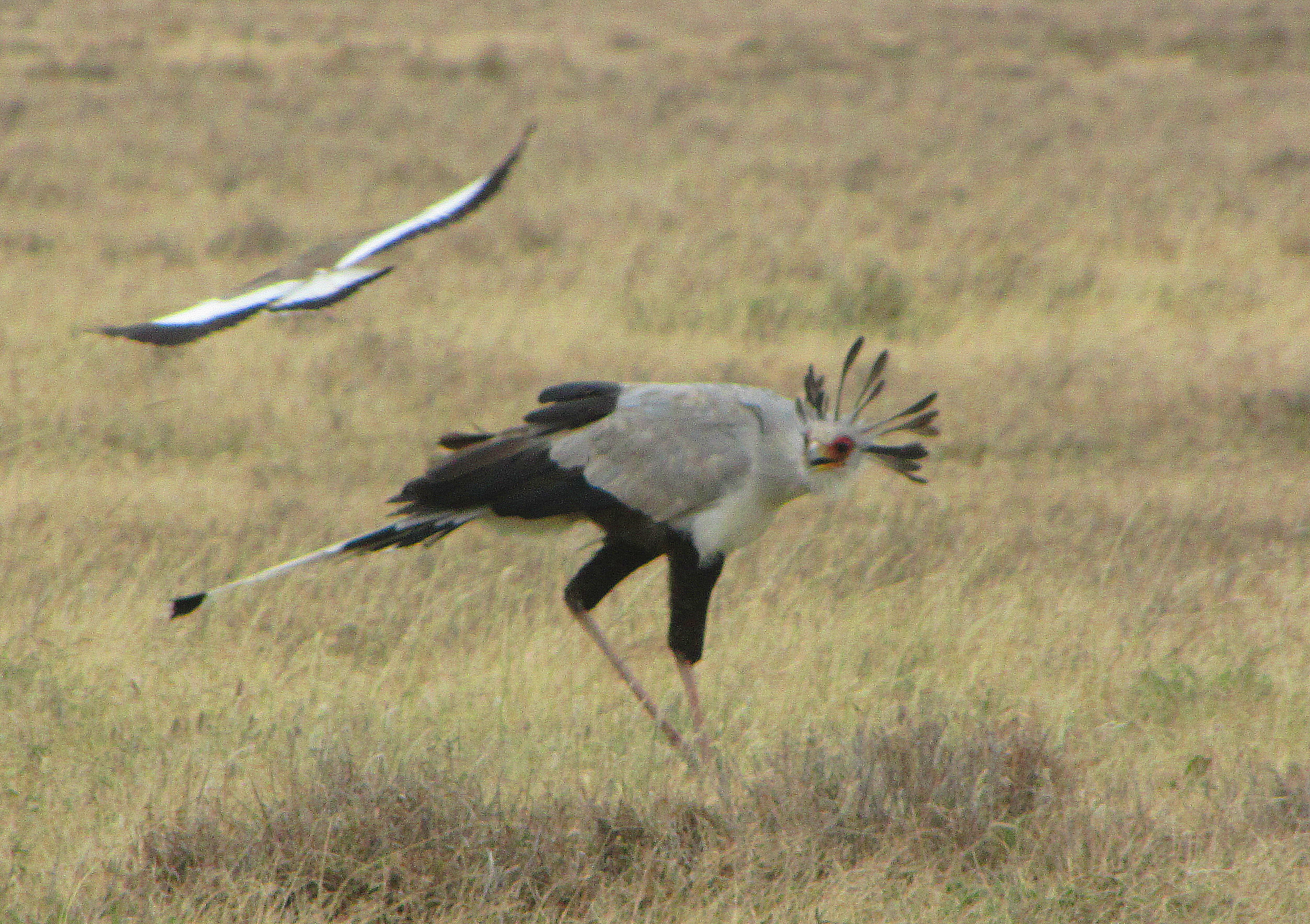 Secretarybird (Sagittarius serpentarius) taken in Serengeti Park, Tanzania